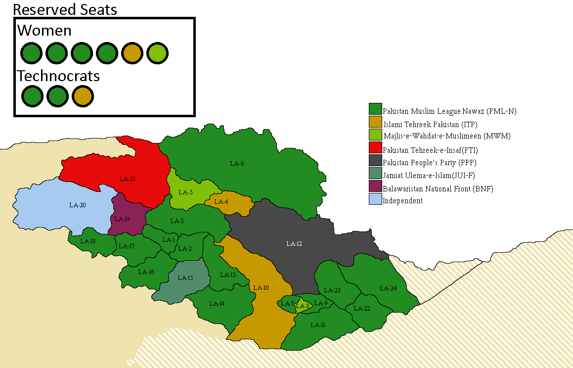 Map of Gilgit Baltistan showing Assembly Constituencies and winning parties